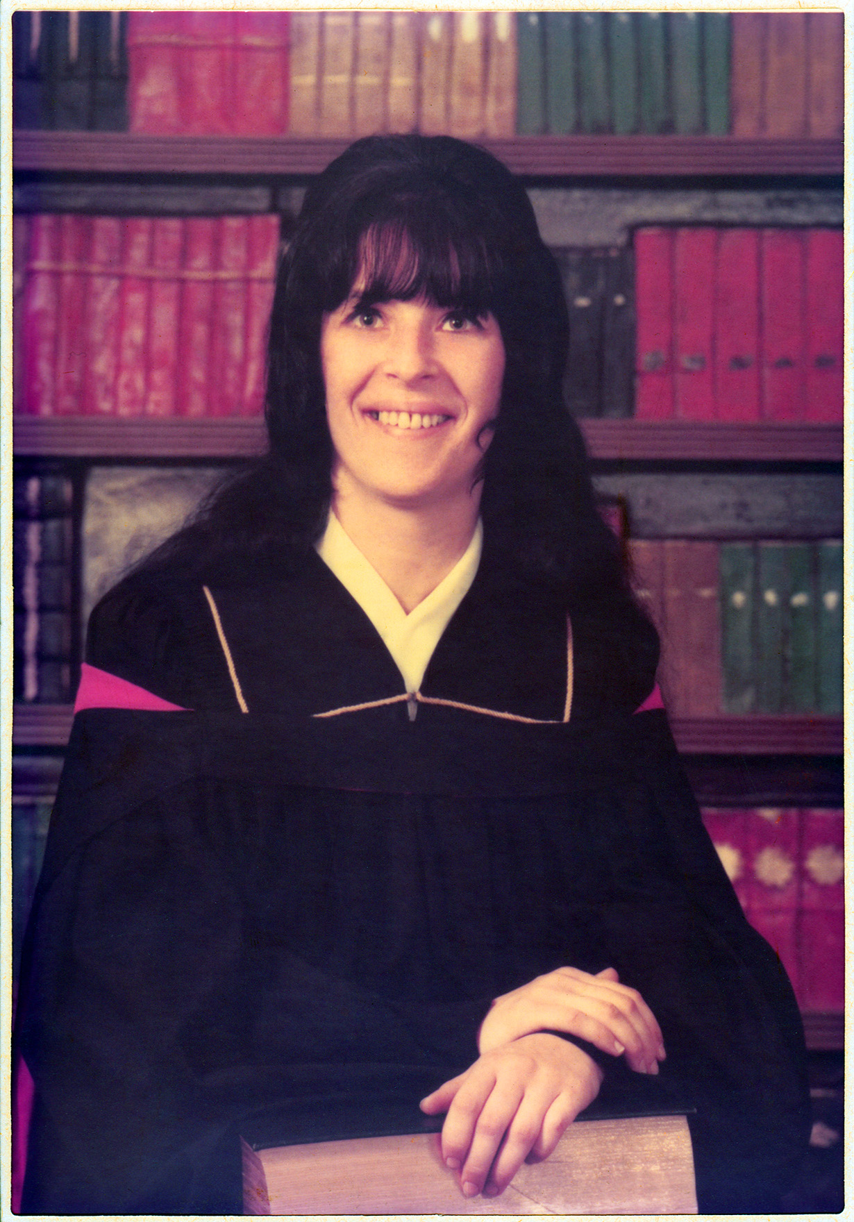 Mary Steinhauser graduating from the University of British Columbia in 1973.